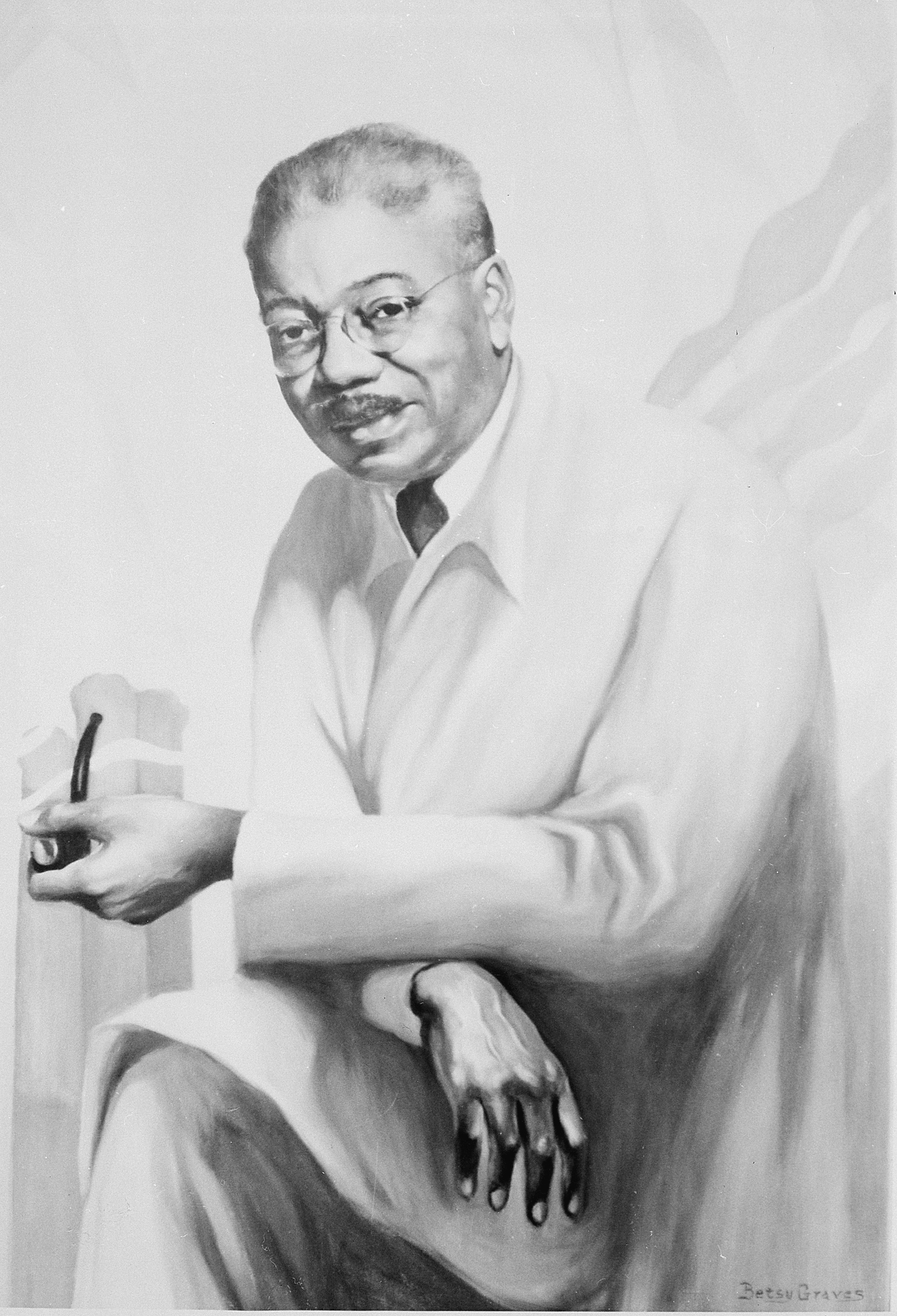 General notes: Painting